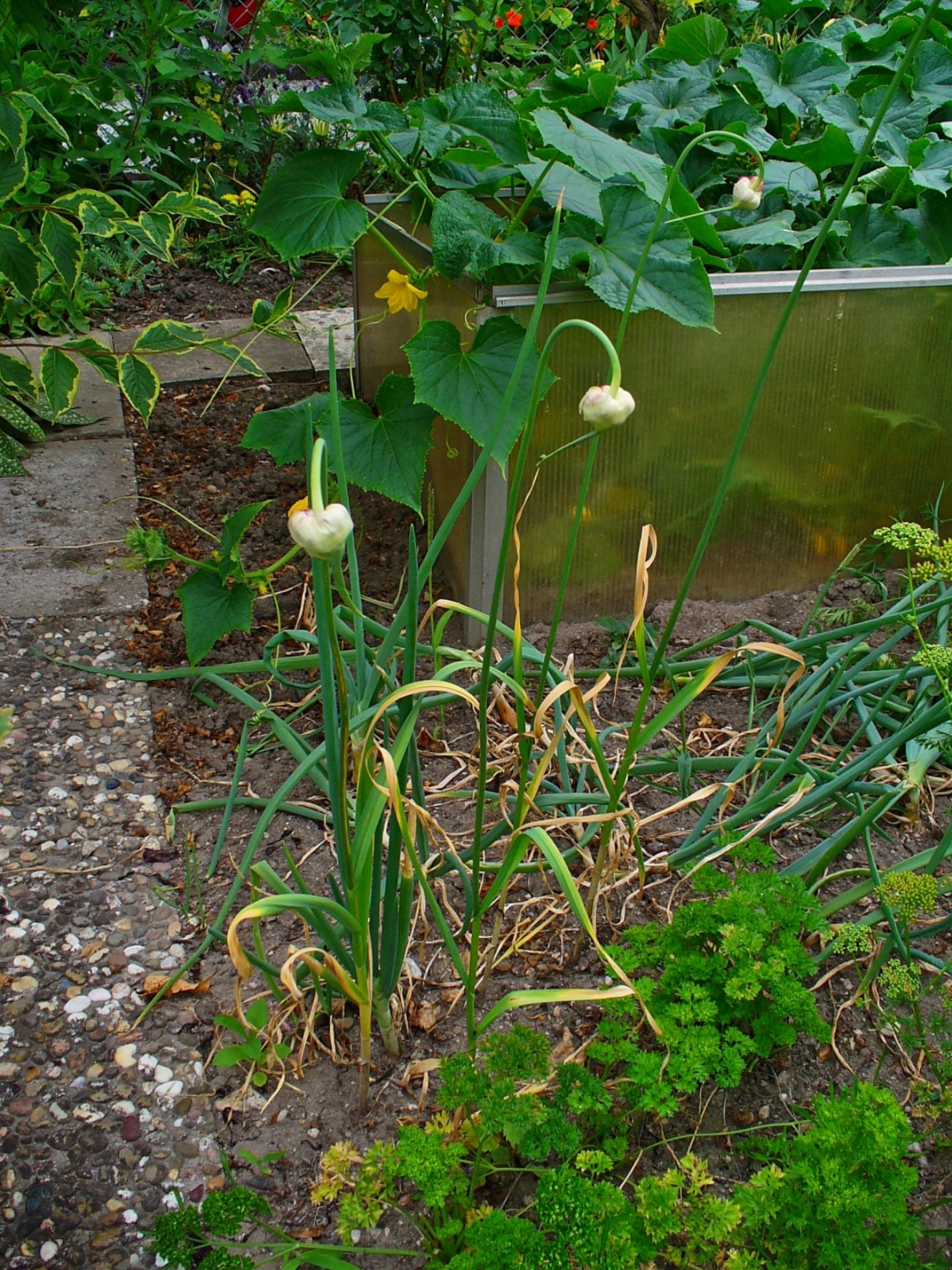 Allium sativum, Alliaceae, Garlic, habitus; Karlsruhe, Germany. The fresh bulbs are used in homeopathy as remedy: Allium sativum (All-s.)